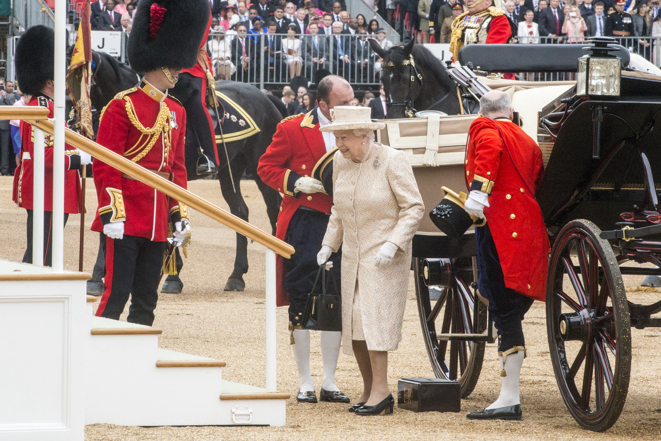 Gen. Martin E. Dempsey, chairman of the Joint Chiefs of Staff, attends Queen Elizabeth II Trooping the Colour parade on June 13, 2015 in London, England. Dempsey was invited to the ceremony as a representative for the U.S. military by his British counterpart Gen. Sir Nick Houghton. (DoD photo by D. Myles Cullen/Released) Unit: Joint Combat Camera Center DVIDS Tags: chairman; CJCS; Dempsey; Martin E. Dempsey